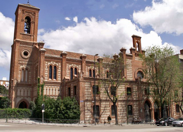 Iglesia de Santa Cristina ("Saint Christina's Church") in Madrid (Spain). Projected in 1904 by Enrique María Repullés y Vargas and built between 1904 and 1906. Neo-Mudéjar style.